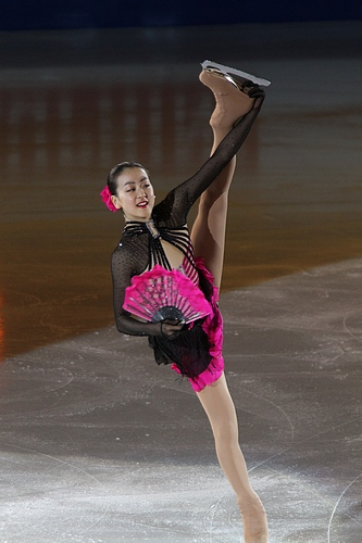 Mao Asada (JPN)during her exhibition program "Capriccio Number 24" at the 2010 World Championships.